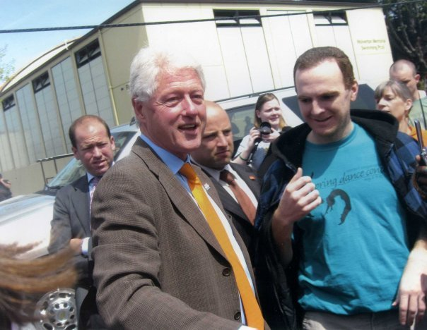 When Bill Clinton was campaigning for Hillary Clinton in Oregon, summer of 2008, at Western Oregon University. Beside Clinton is WOU student Andrew Parodi.